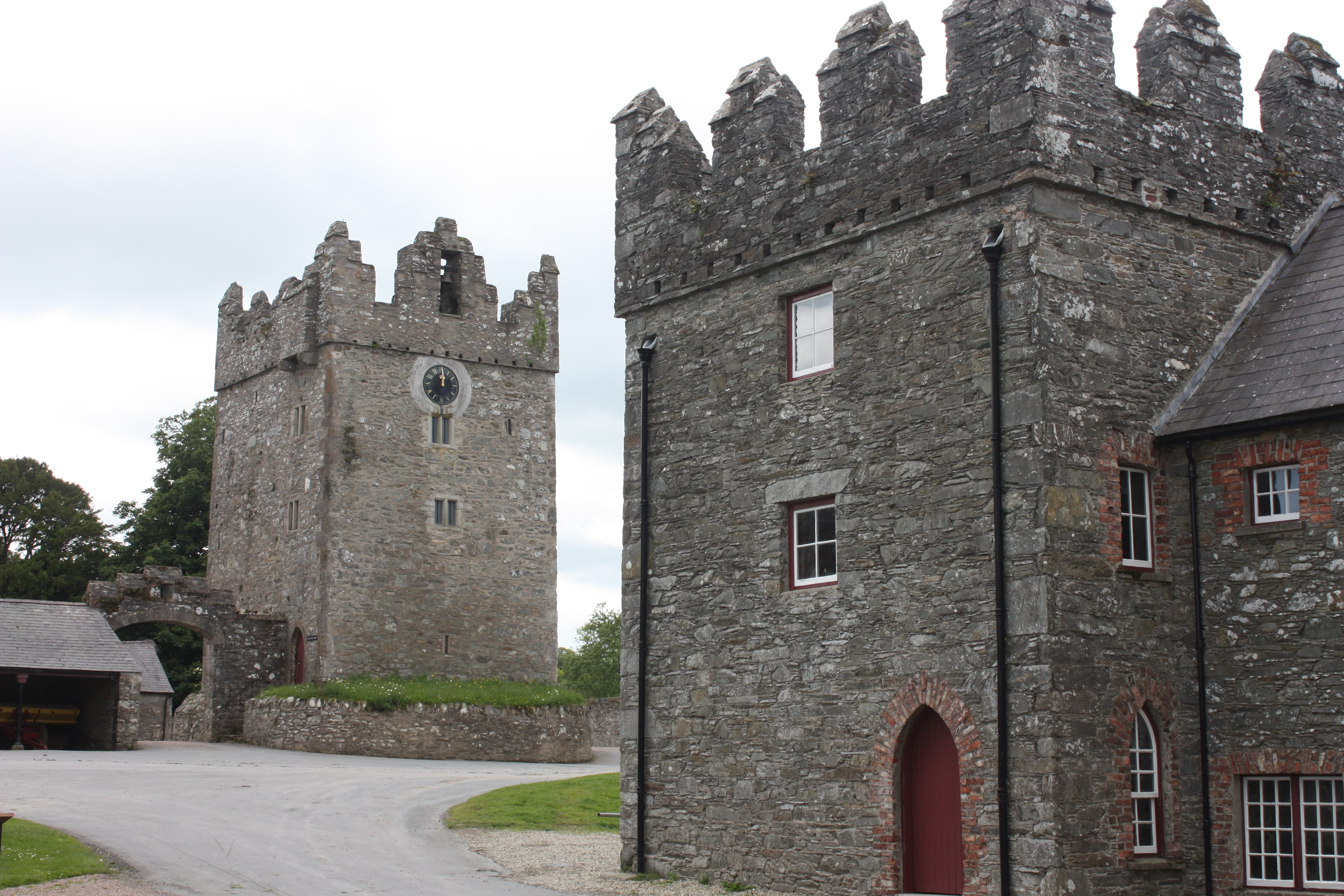 Castle Ward Castle, Castle Ward, Strangford, County Down, Northern Ireland, June 2011 (in background with clock)